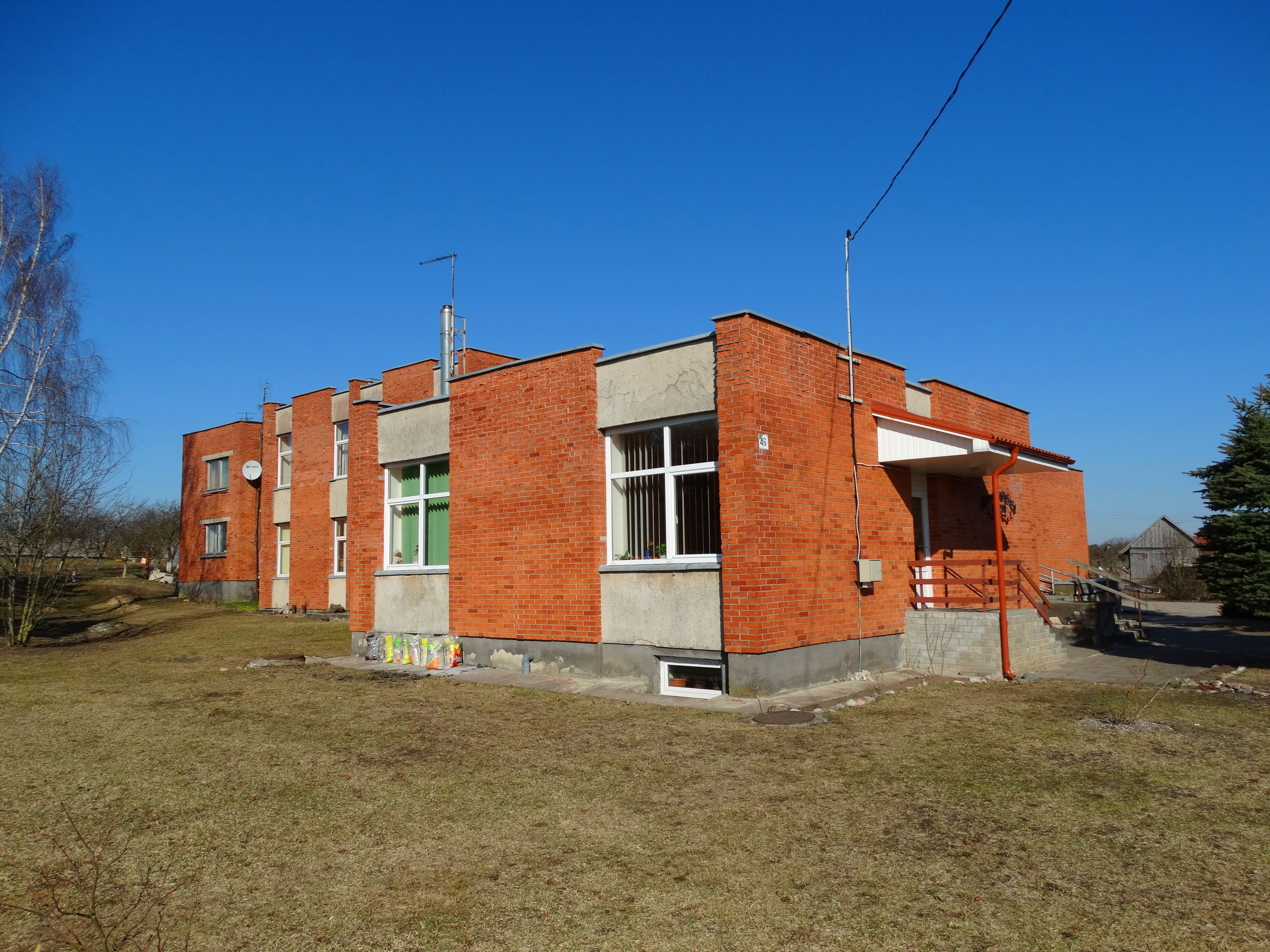 Šaukotas, Radviliškis district, Lithuania